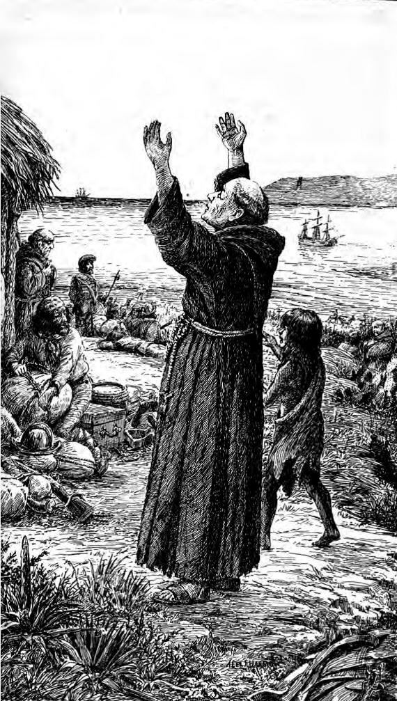 Father-Presidente Serra gives thanks for the arrival of the supply ship San Antonio in San Diego Harbor on March 19, 1770. From Mission San Diego (1920) by Zephyrin Engelhardt, p. 35.